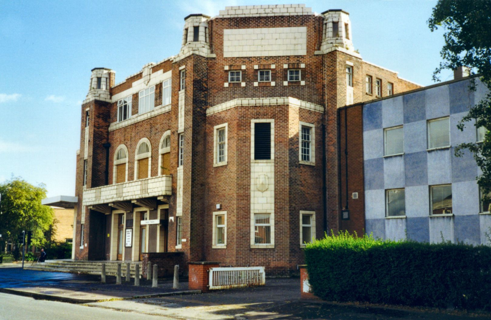 Former studios of ABC Weekend TV in Didsbury, Manchester. Pictured whilst called the Capitol Theatre, and in use by Manchester Metropolitan University (formerly Polytechnic) as the training base for their television production course, and home to the Manchester Polytechnic School of Theatre (drama school). Demolished in 1998 to make way for new flats.